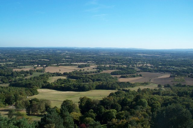 Surrey's landscape. View from Leith Hill Tower, looking SE across the Weald of Sussex towards the South Downs.